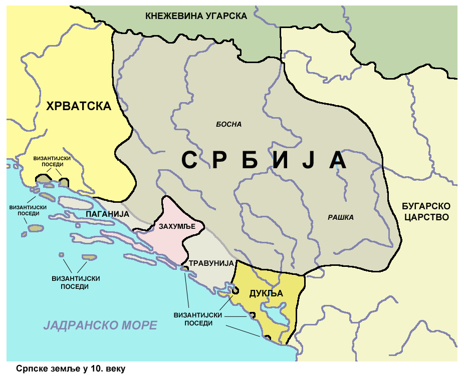 Serb lands in the 10th century - Serbian language Cyrillic script version.